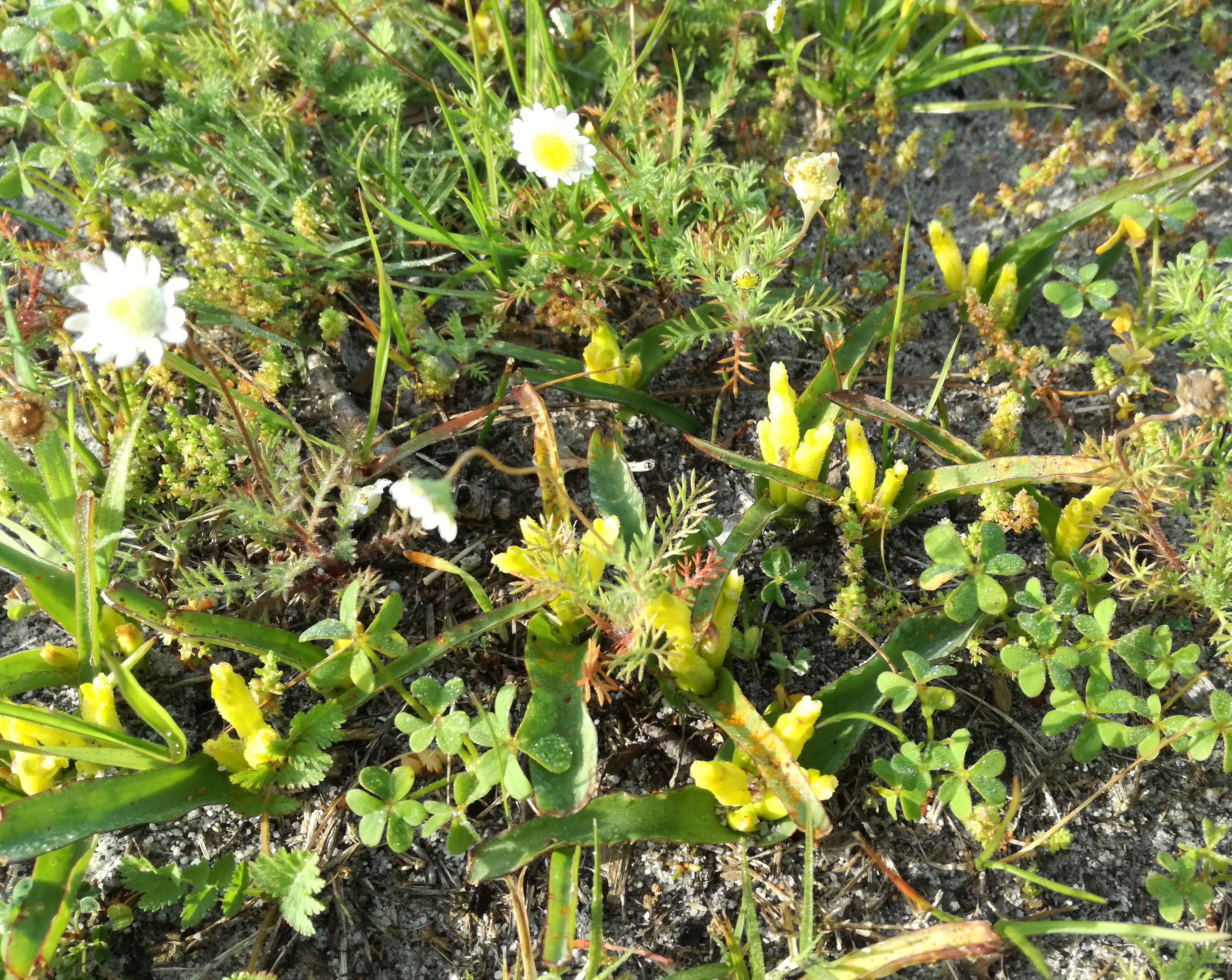 Lachenalia reflexa at Kenwyn Nature Park - Yellow Soldiers - Chukker Road Open Space